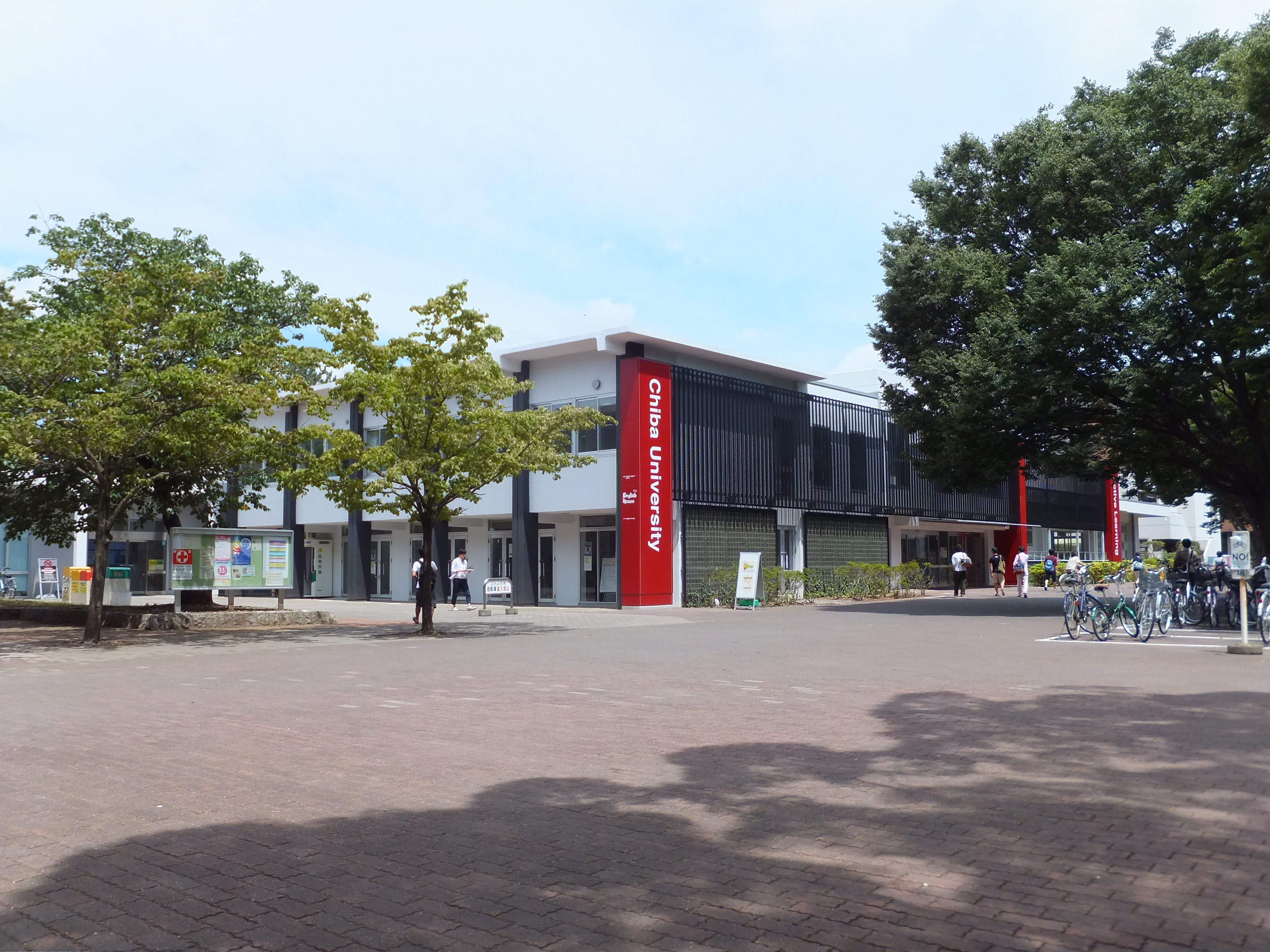 Student service facility of Chiba University